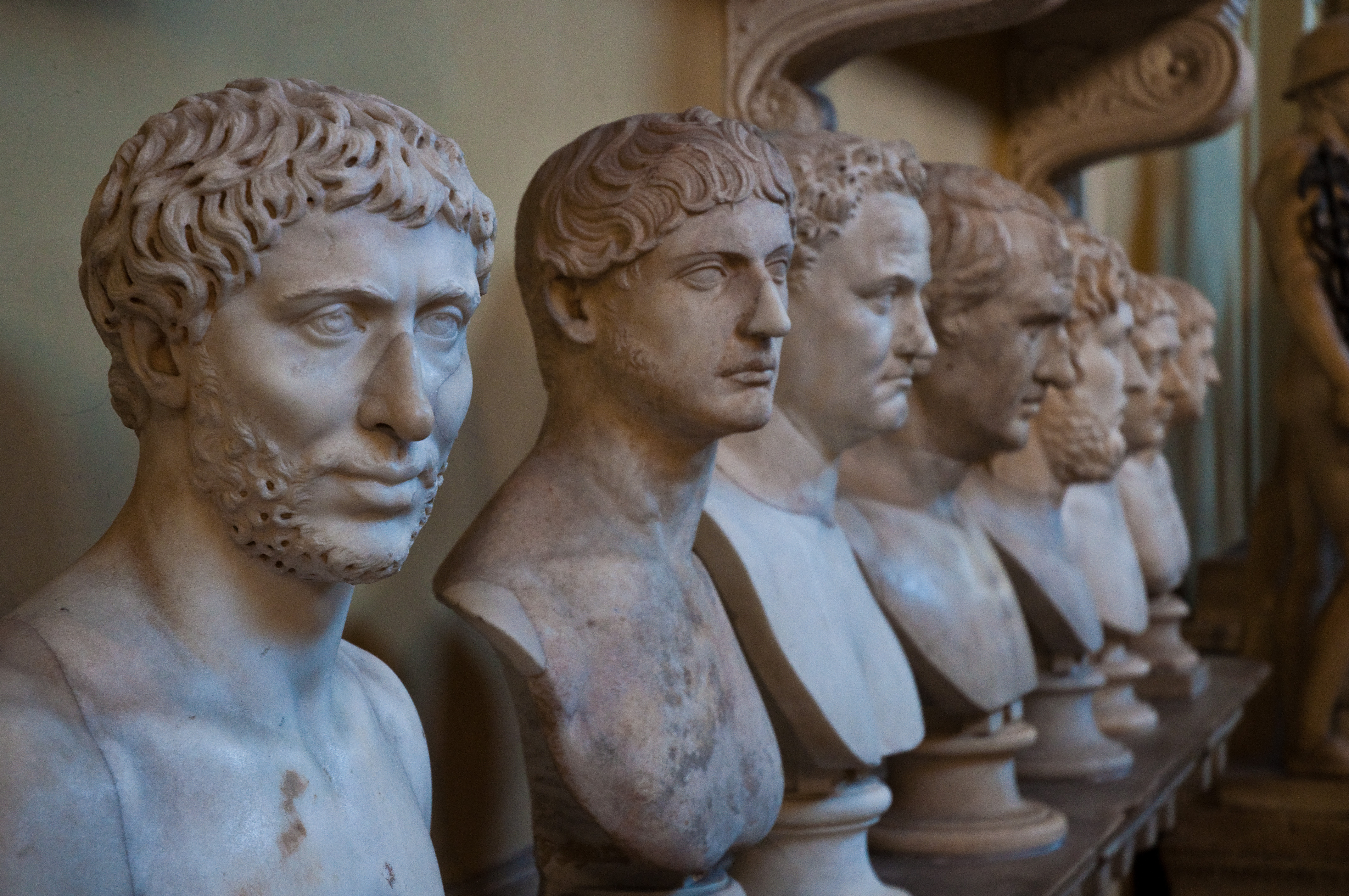 Romans, Vatican Museum, Rome, Sept. 2011